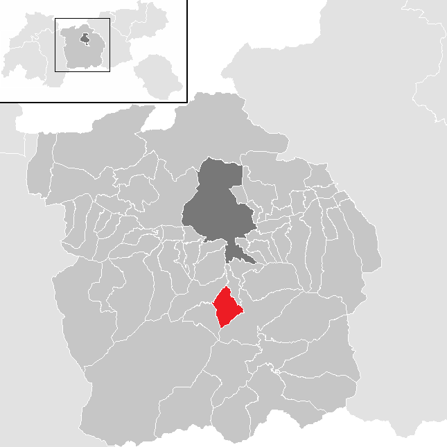 District Innsbruck Land